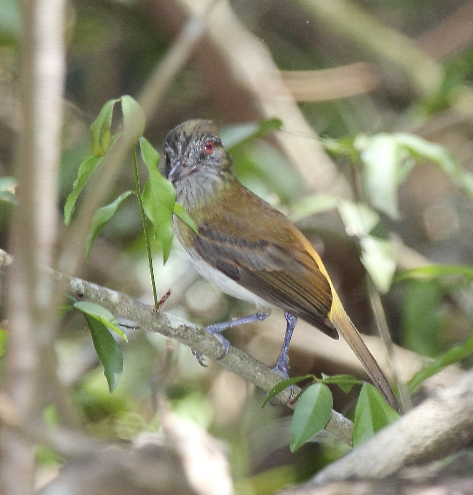 Bright-rumped Attila (Attila spadiceus), Belize